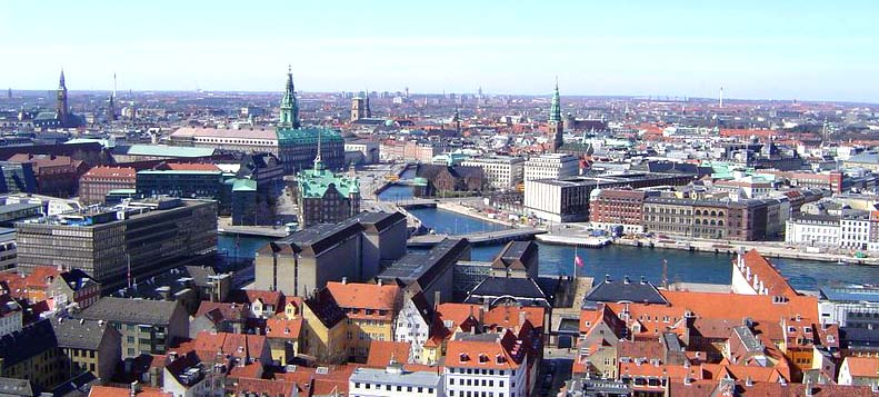 Views of the inner city of Copenhagen